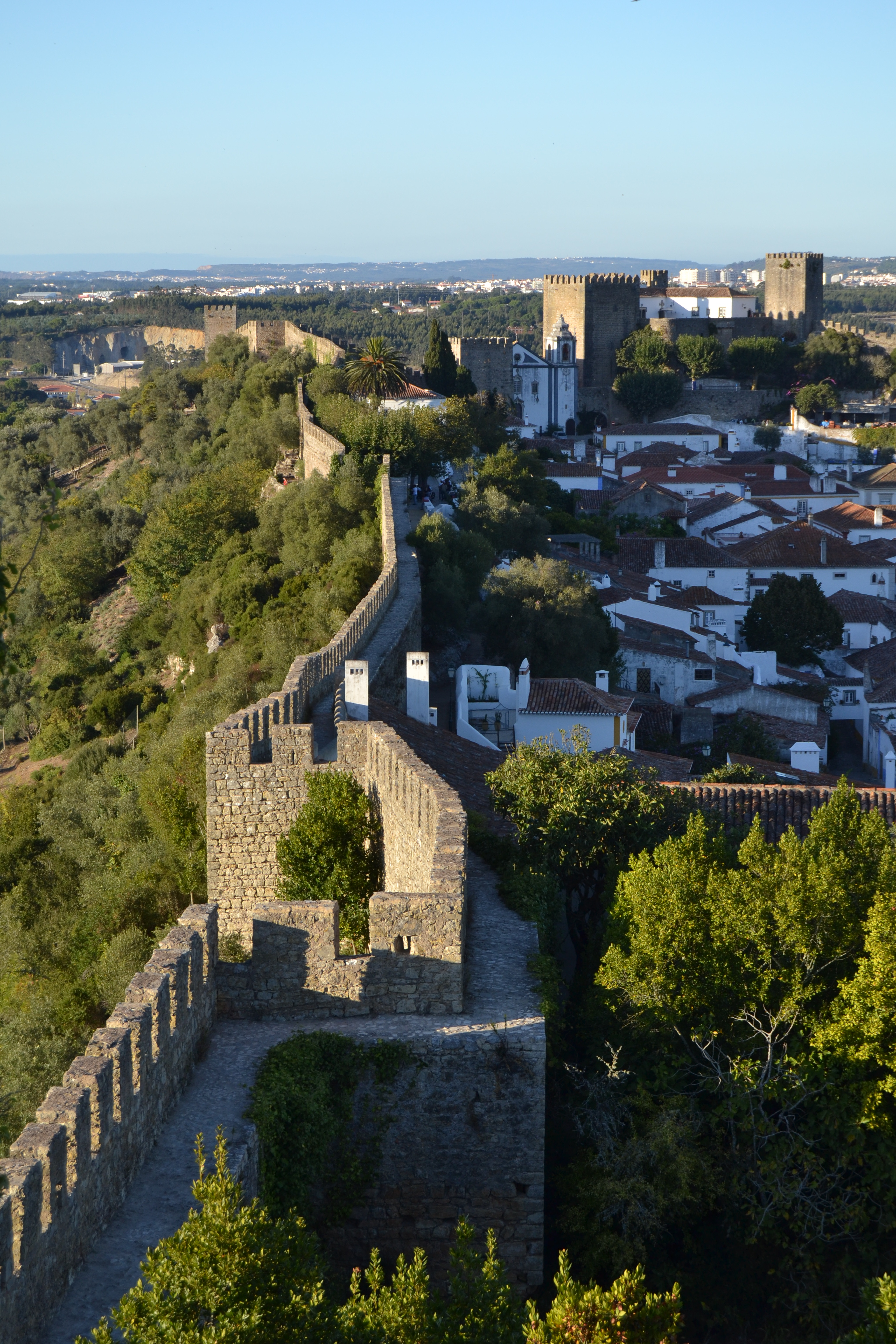 City Walls of Óbidos This file was uploaded for Wiki Loves Monuments in Portugal with the unique identifier 70427. This monument is classified as Monumento Nacional. This building is classified as Monumento Nacional.